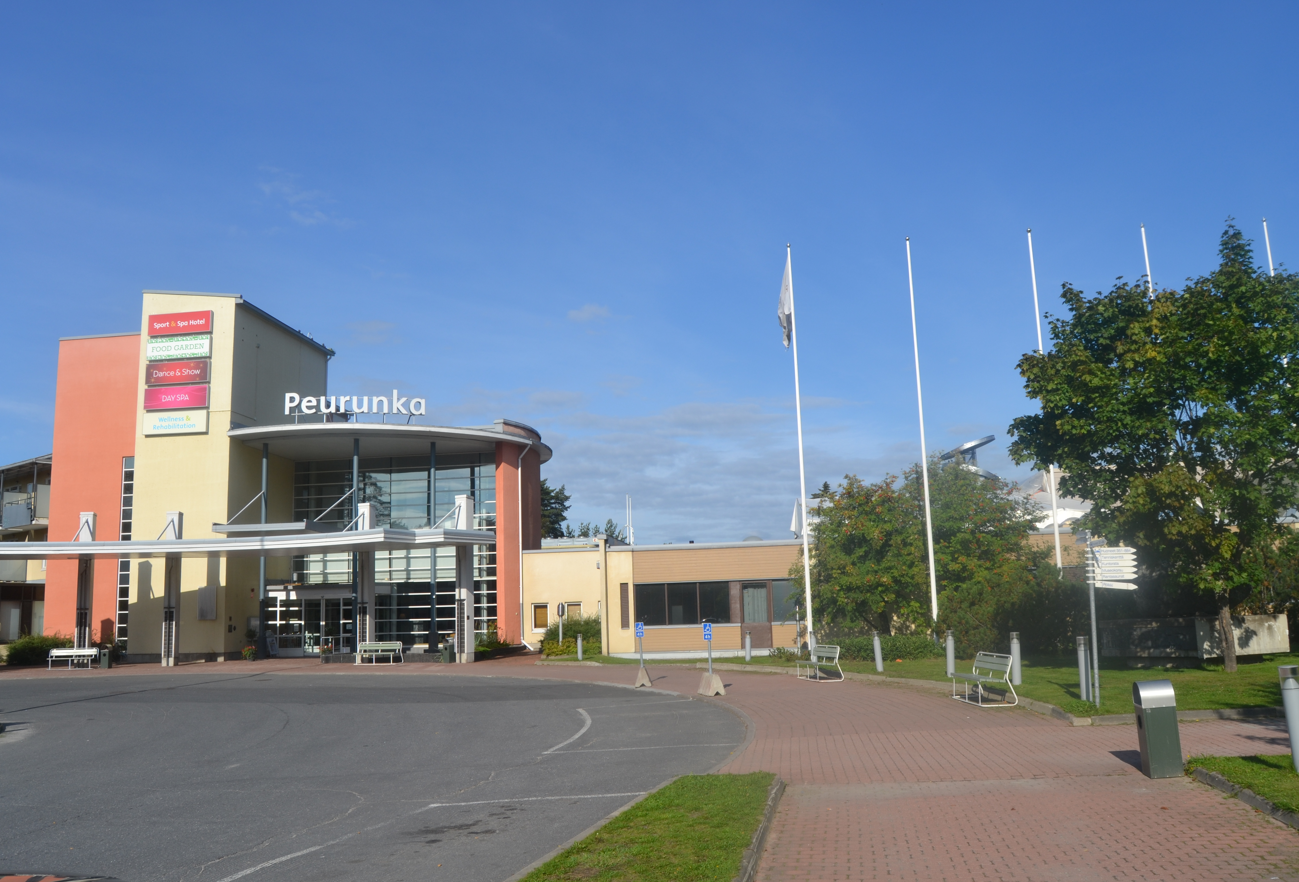 Peurunka spa in Laukaa, Finland